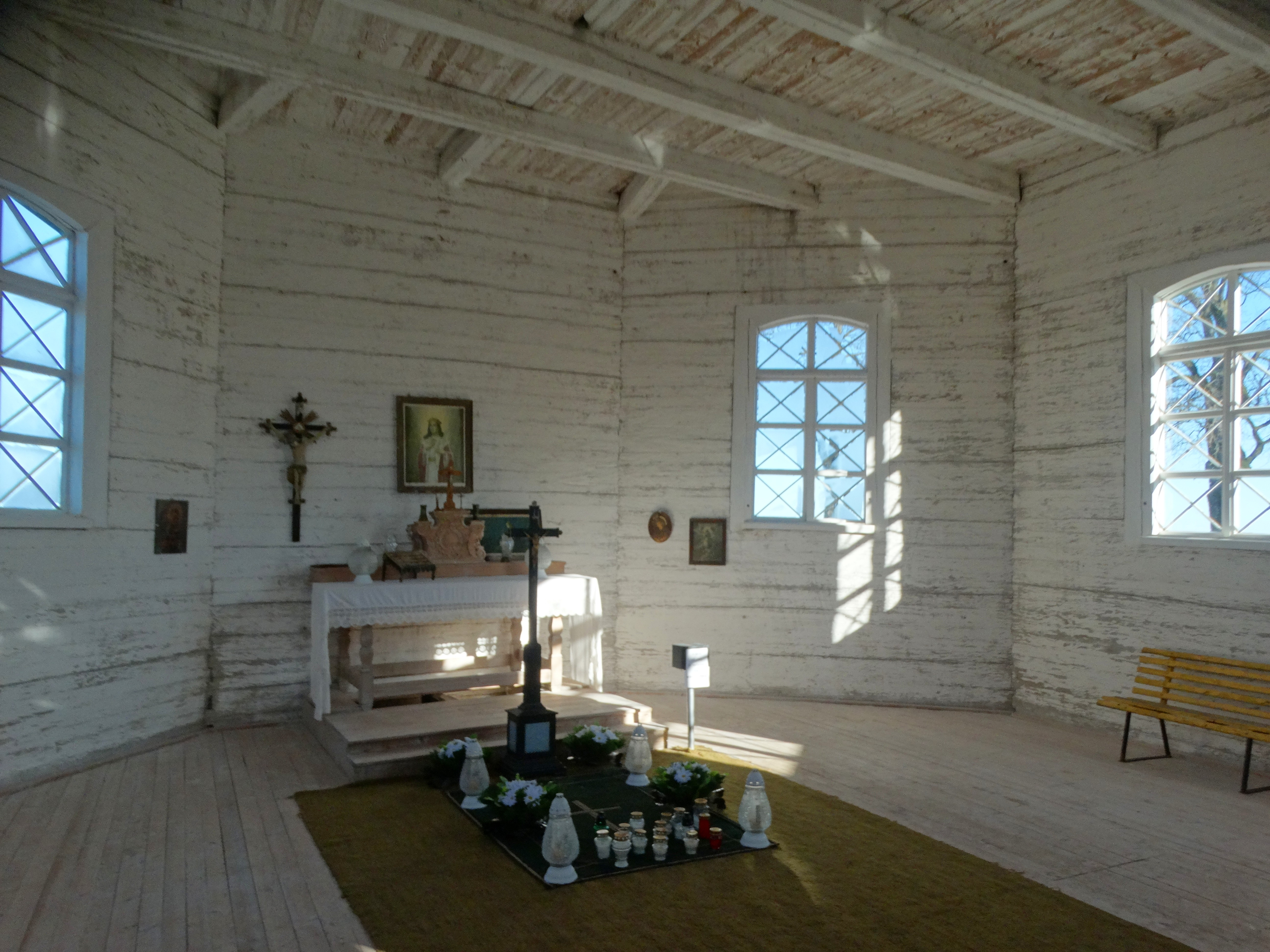 Kuliai cemetery chapel, Plungė District, Lithuania